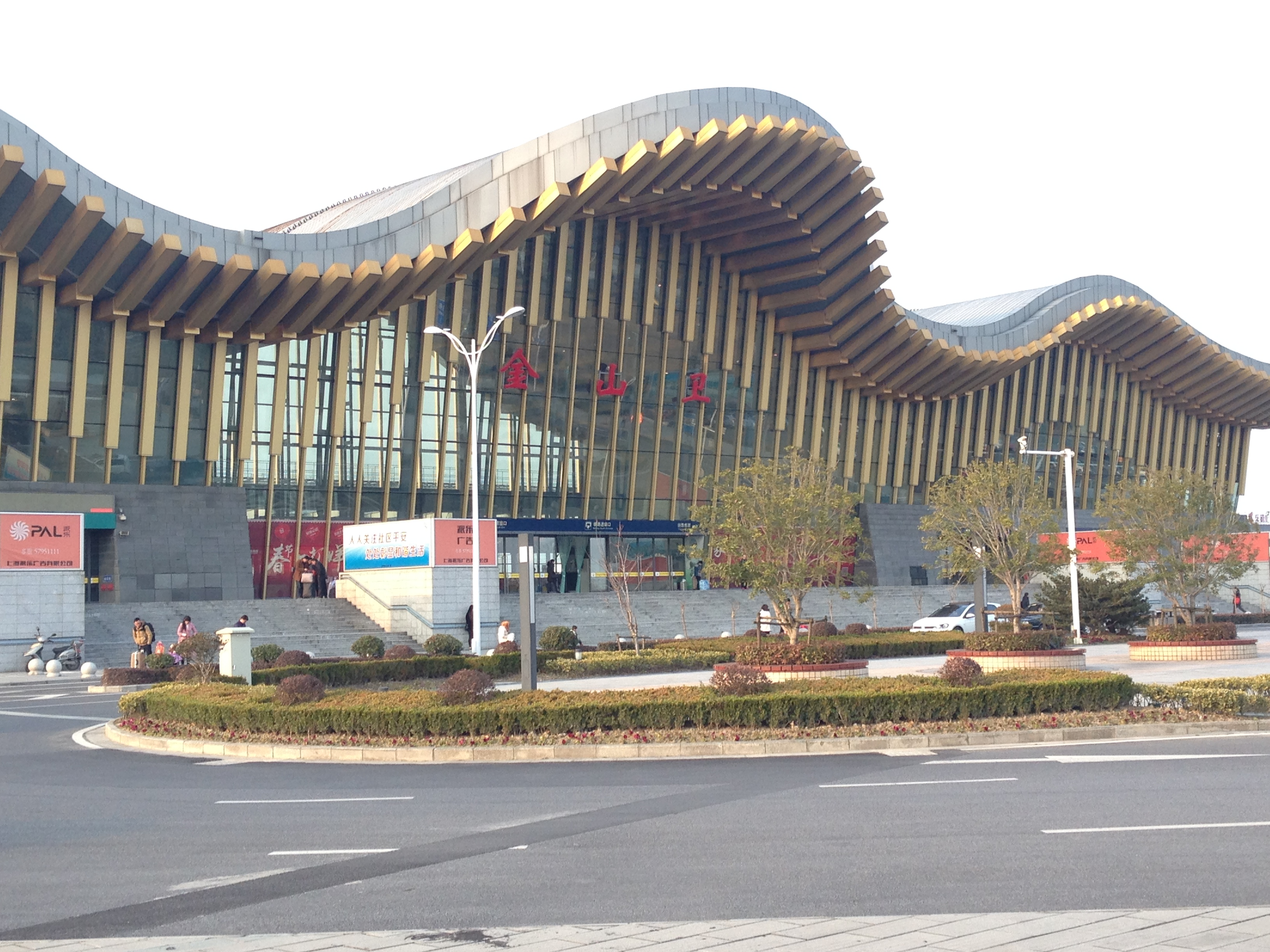 Outside view of Jinshanwei Railway Station